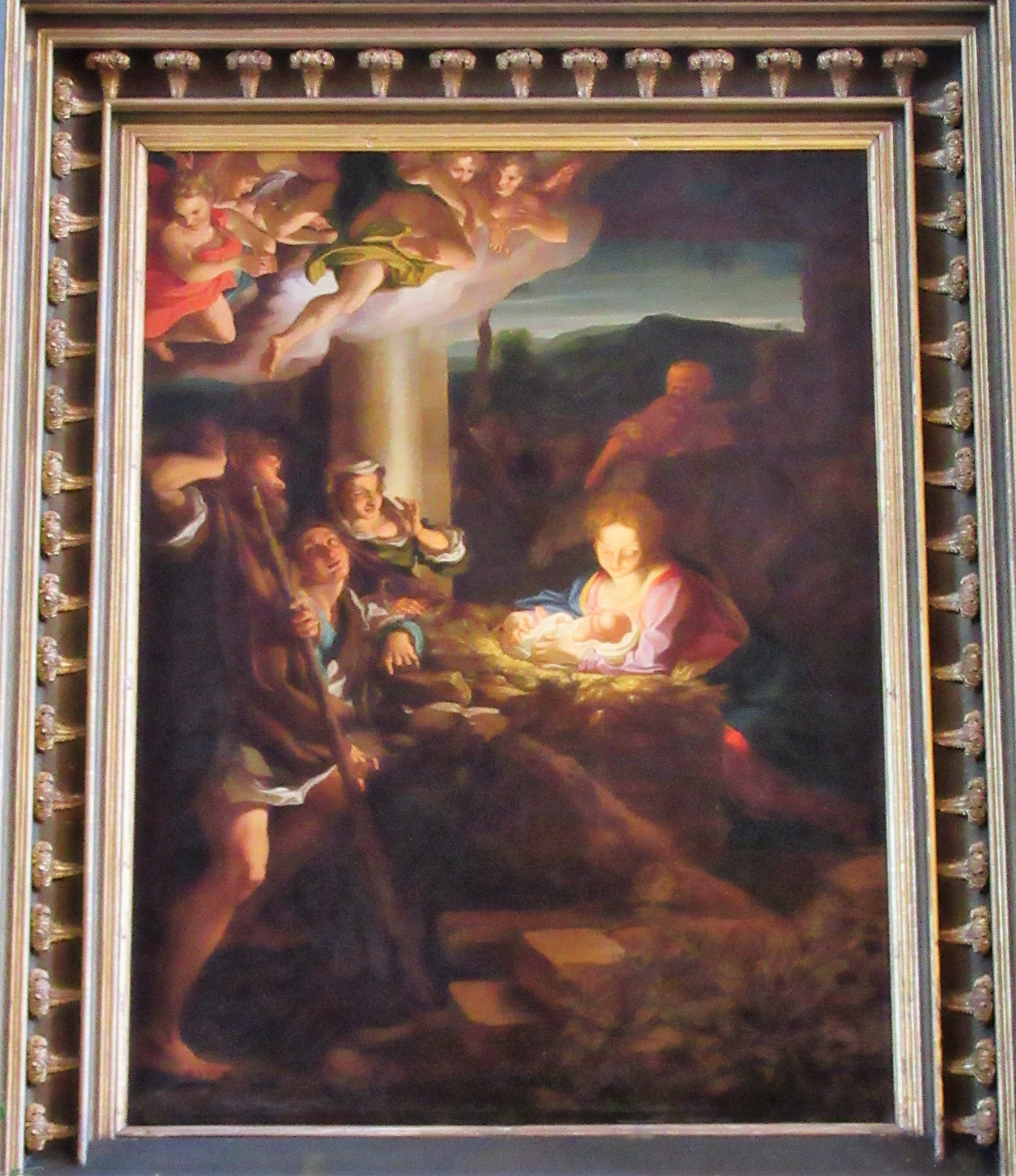 St. Marien, Greifswald